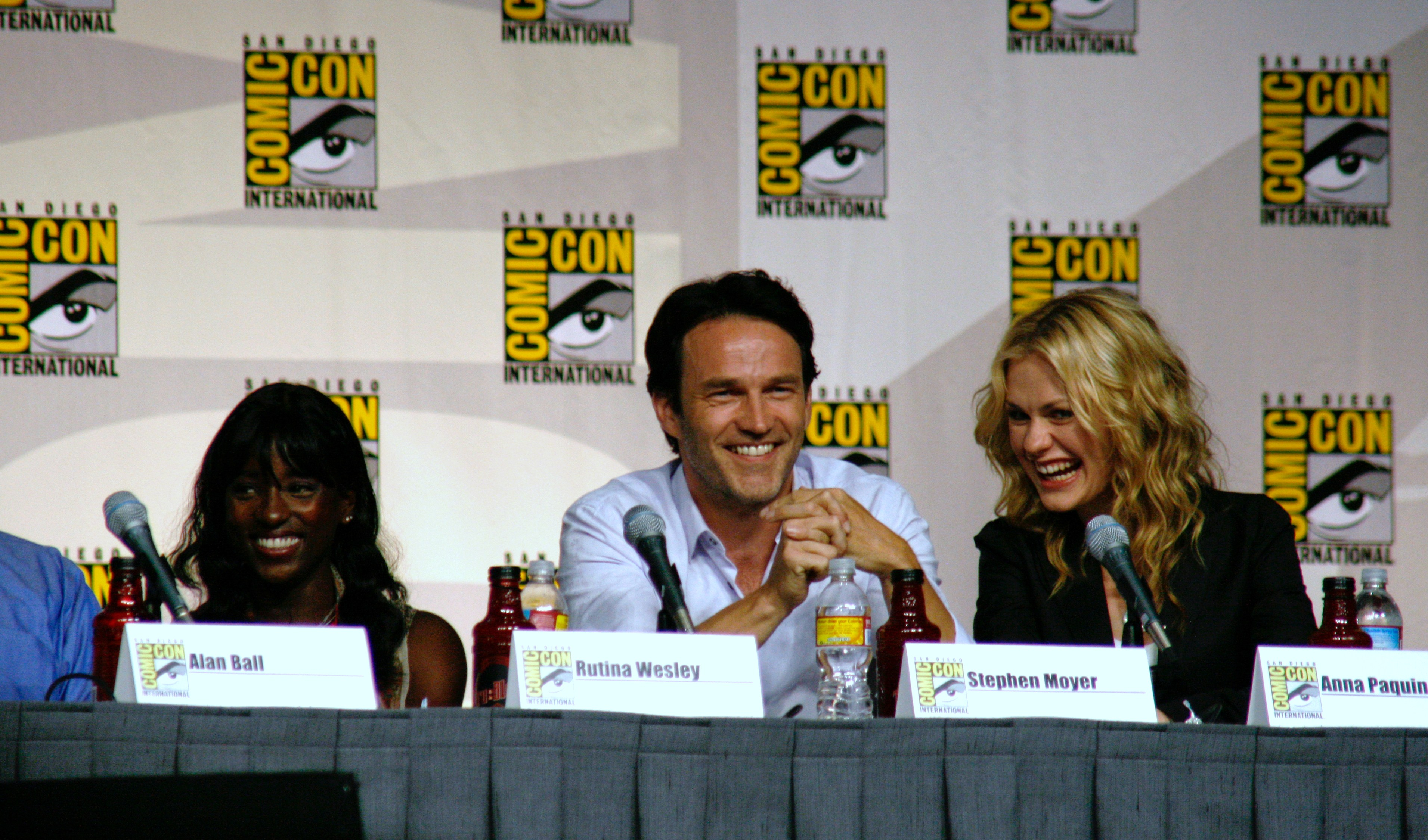 Images taken at the True Blood panel at San Diego Comic-con with Anna Paquin, Stephen Moyer and Rutina Wesley on Saturday July 25, 2009